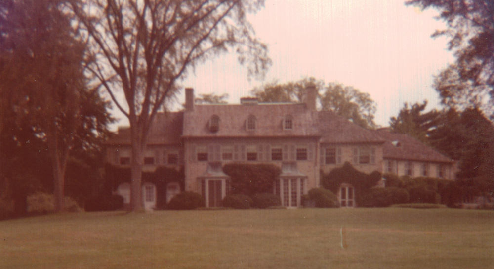 Cobble Court, rear lawn